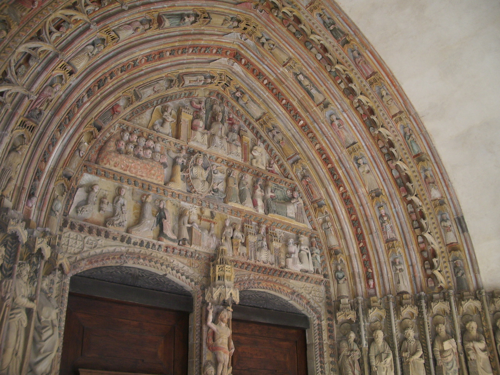 Gothic portal from Santa Maria church in Deba (Guipuscoa)